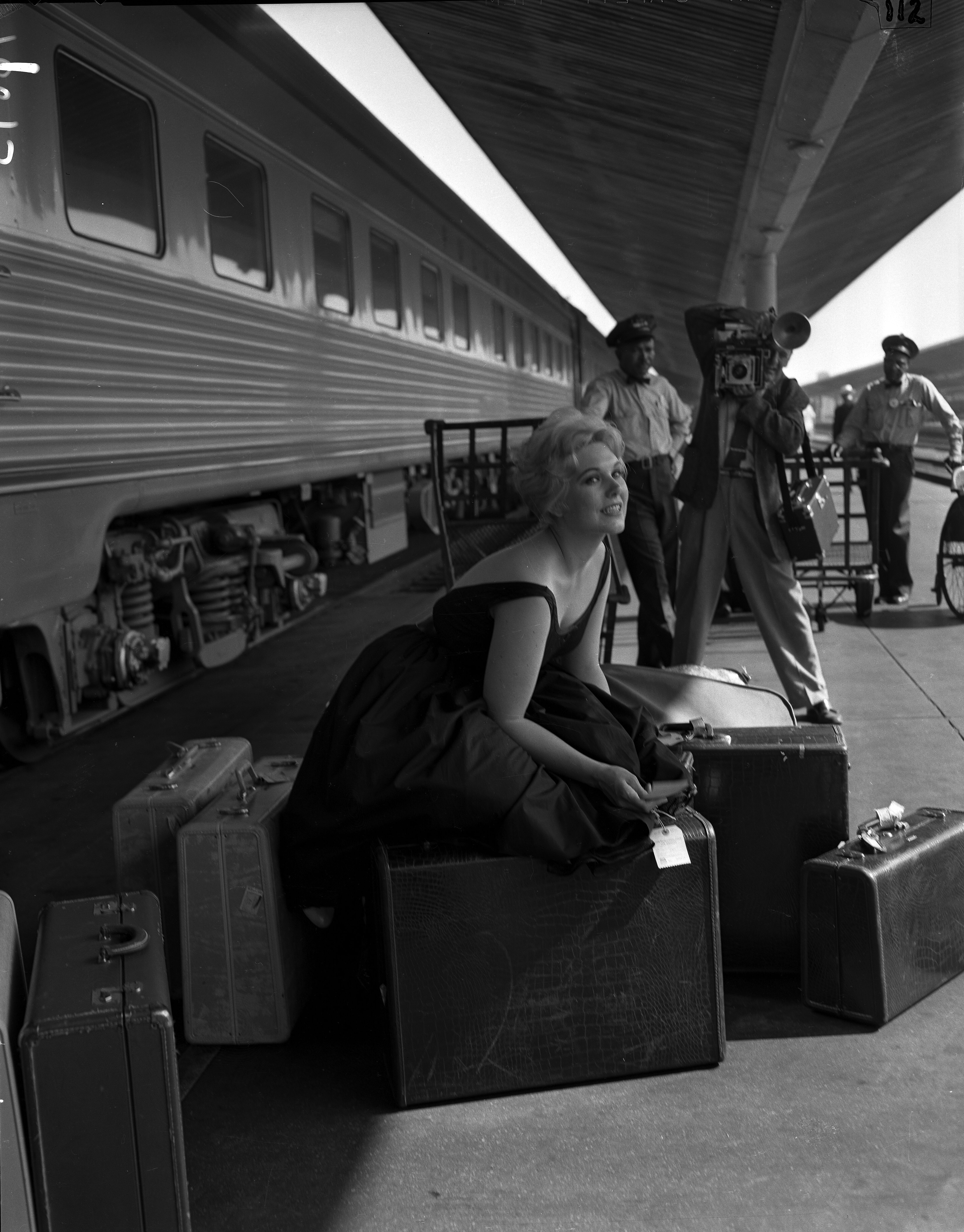 Kim Novak posing for reporters on the train platform at Los Angeles Union Station in 1956.